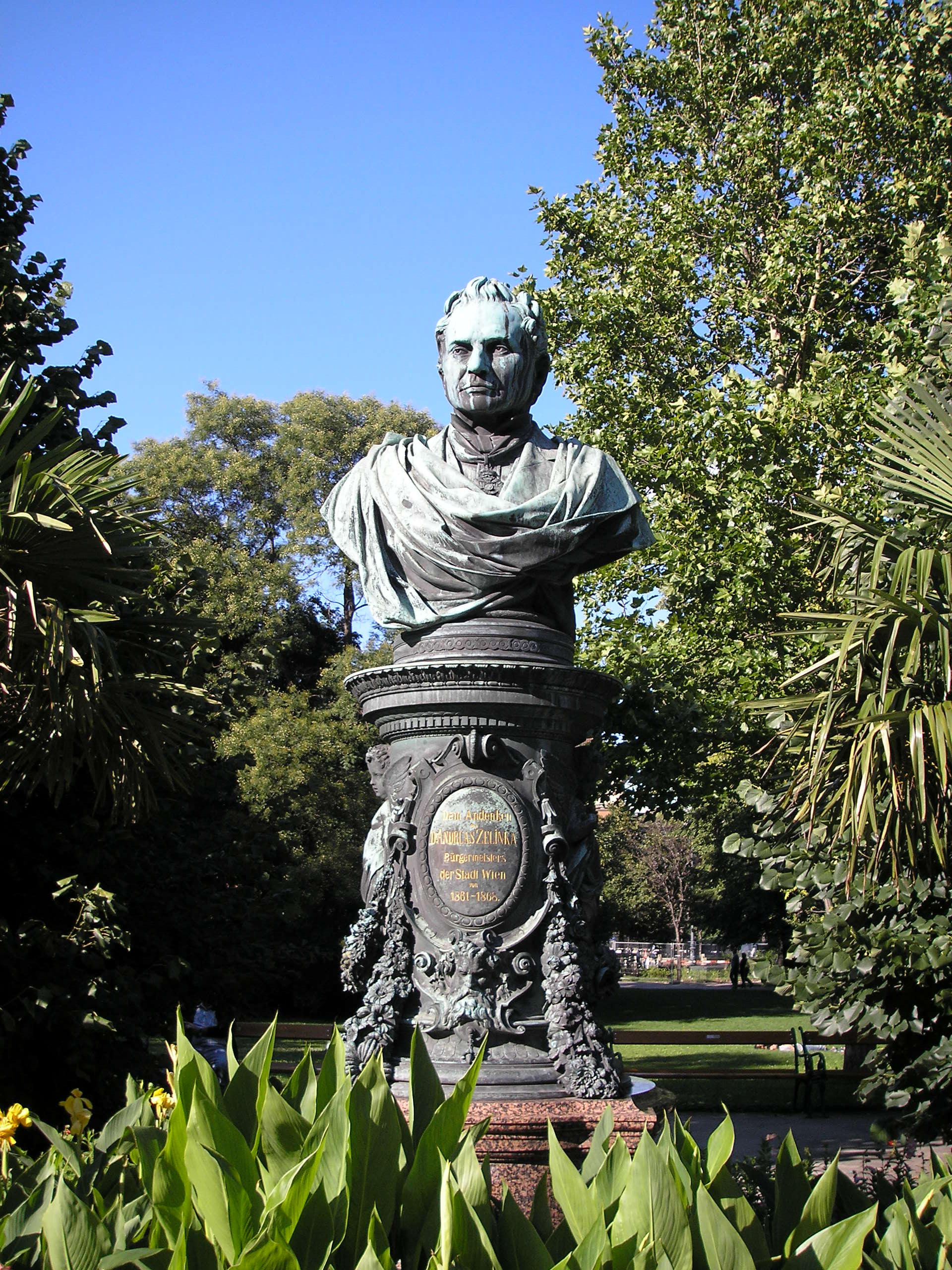 Bust of Andreas Zelinka (1802 — 1868), a mayor of Vienna, in the Stadtpark. Sculptor: Franz Pönninger.